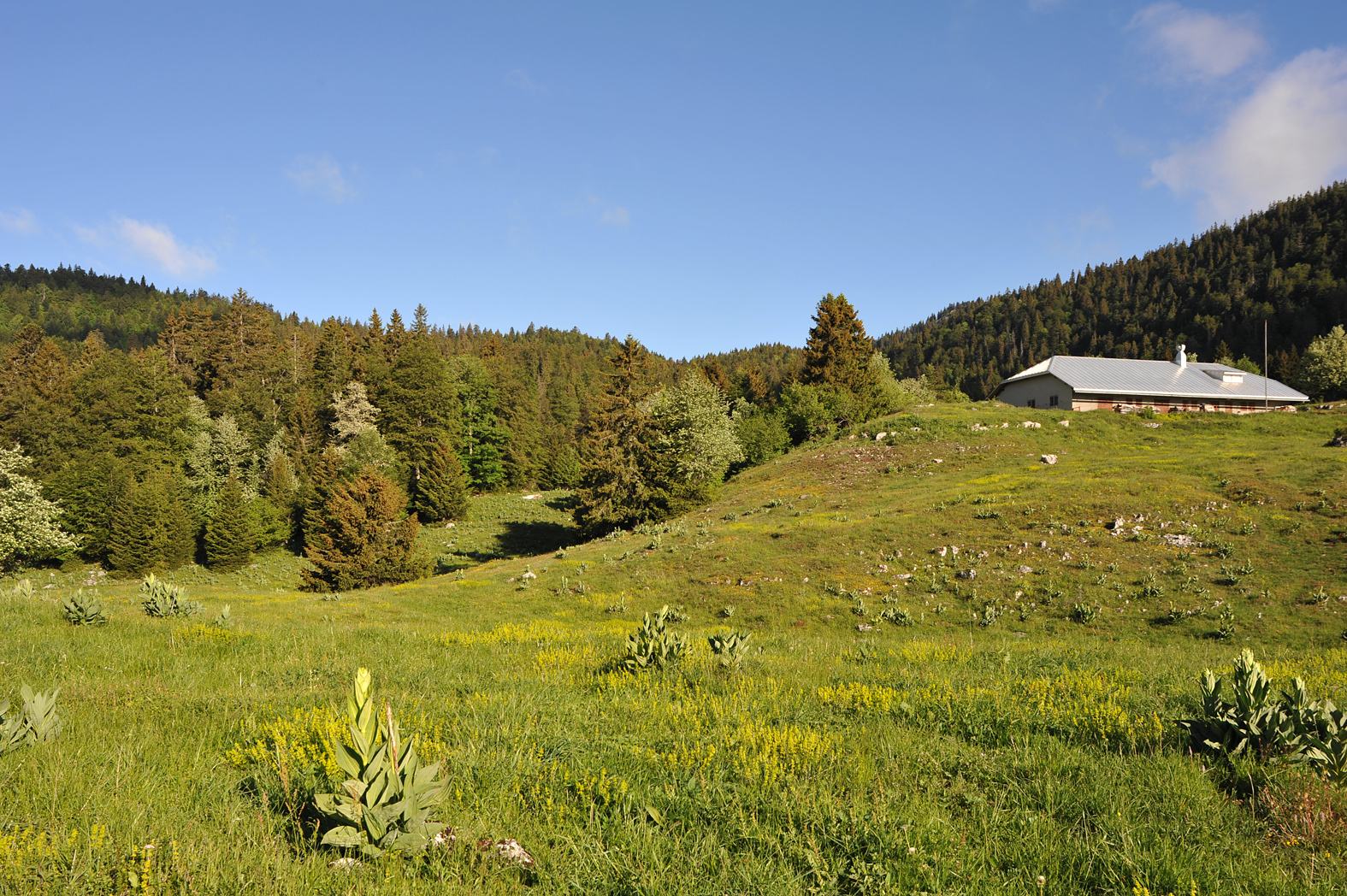 French-Swiss border above La Rippe; Vaud, Switzerland. After crossing the 1400 m above sea level lying mountain range northeast of Mijoux Michel Hollard crossed here at the clearing La Combe du Faoug secretly the French-Swiss border.